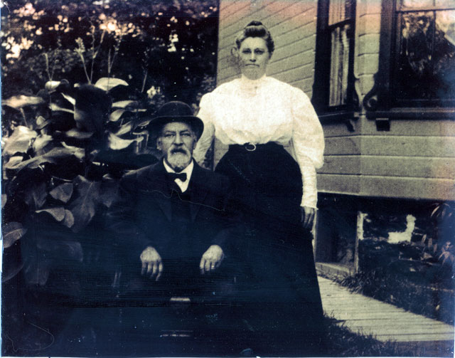 Copy of photo owned by author